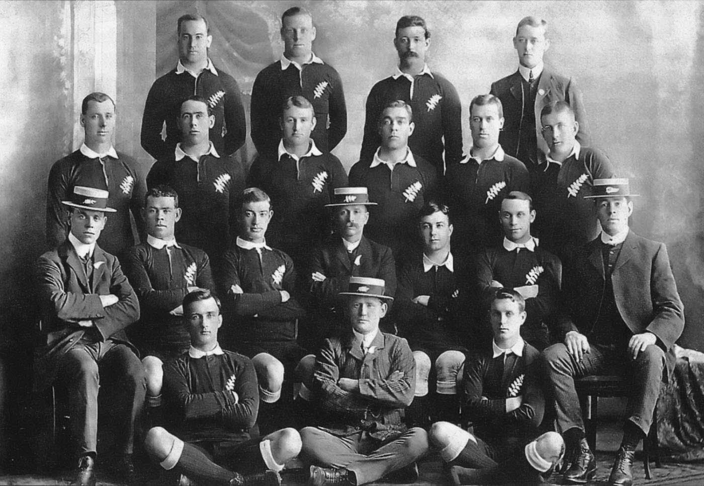 The New Zealand "All Golds" national rugby league team that toured Great Britain and Australia.